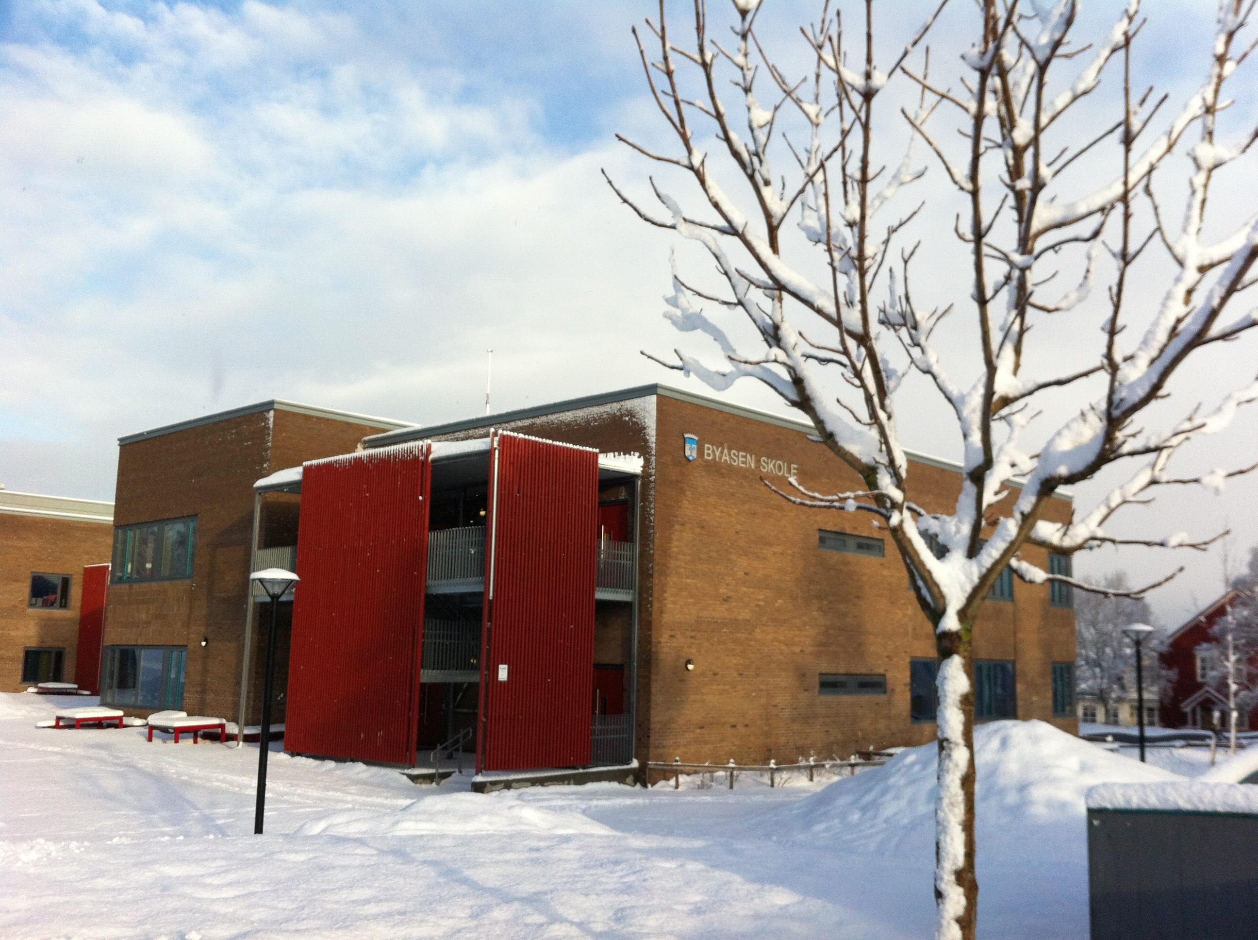 This new school building in Trondheim, Norway was awarded the Trondheim Municipality architectural tradition prize 2008. Architect: Eggen arkitekter AS